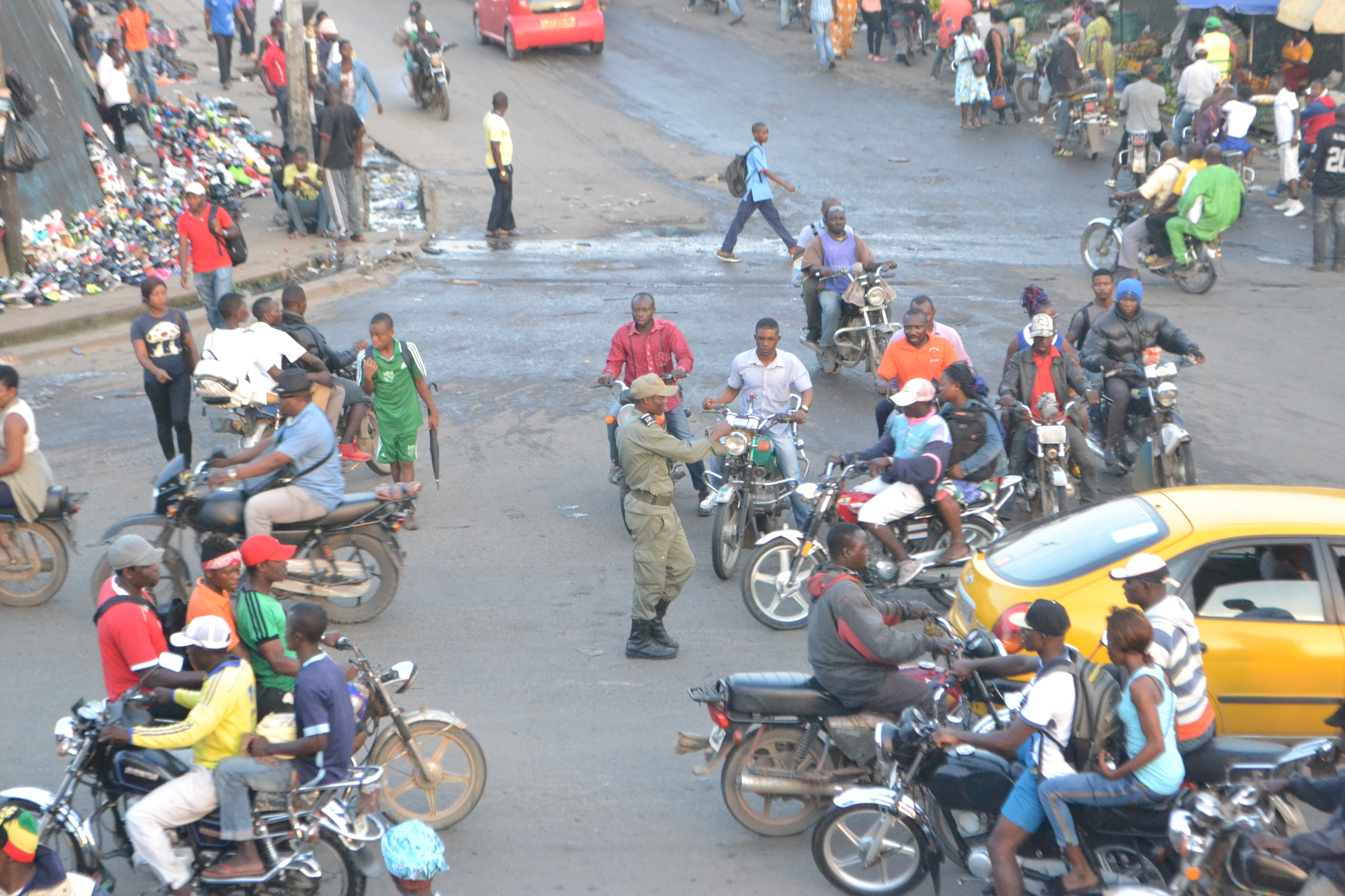 a gendarme regulating road traffic This is an image of "African people at work" from Cameroon